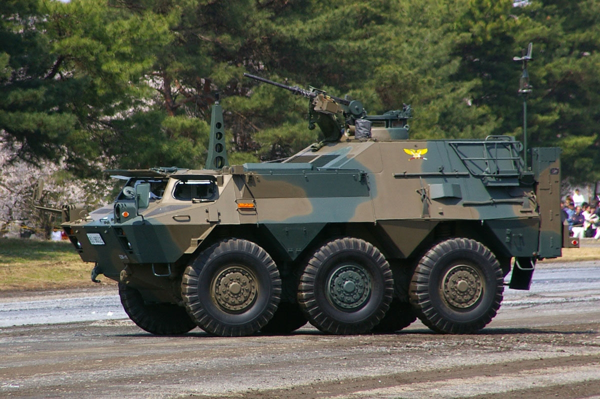 Taken by los688,8-Apr-2007,JGSDF Camp-Utsunomiya.JGSDF Chemical Reconnaissance Vehicle.12th Bri.PD-self. ja:2007年4月8日、投稿者撮影。陸上自衛隊宇都宮駐屯地創立57周年記念行事。化学防護車。